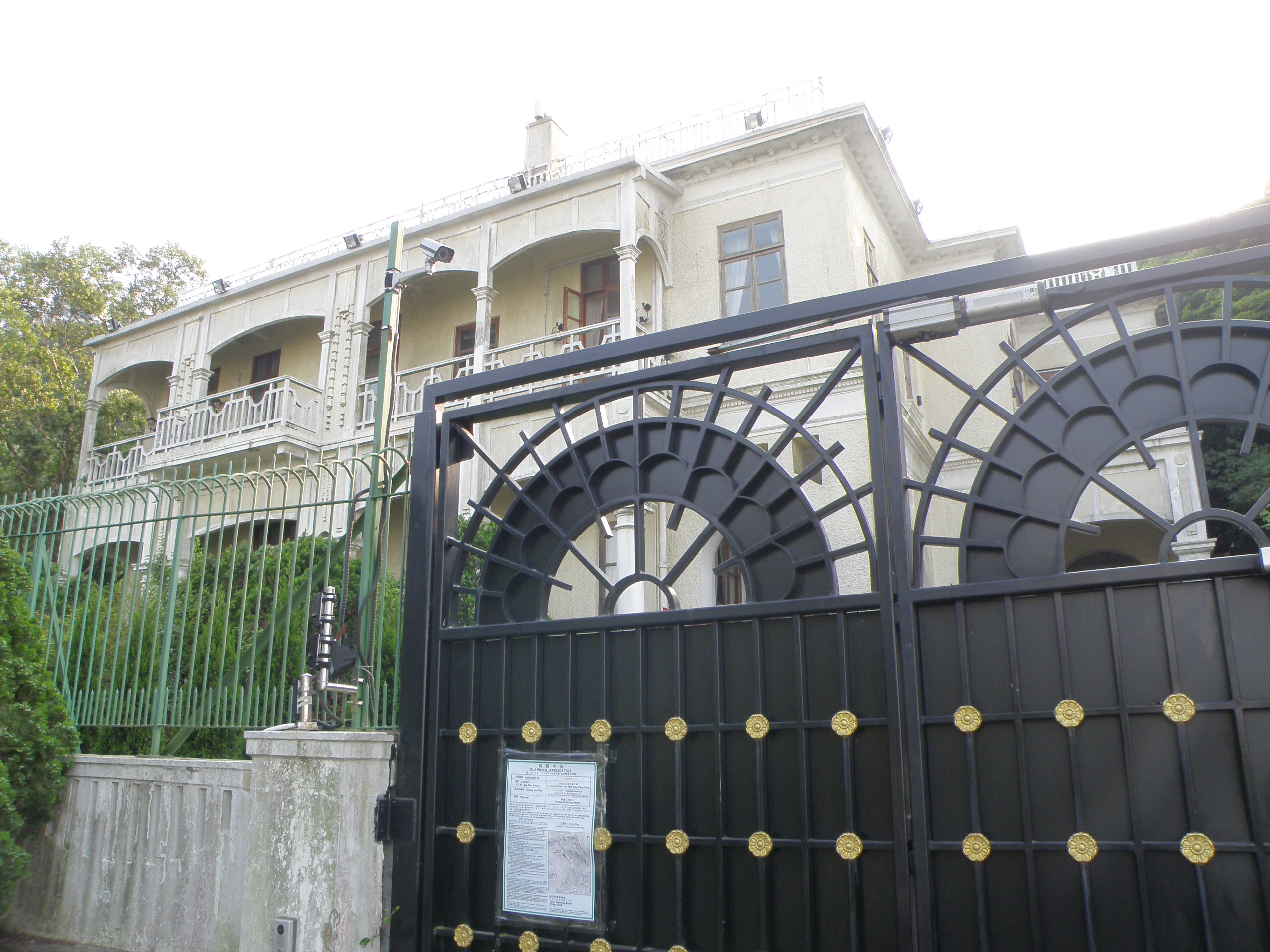 27 Lugard Road in The Peak, Hong Kong.